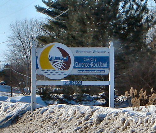 Clarence-Rockland welcome sign, Ontario, Canada